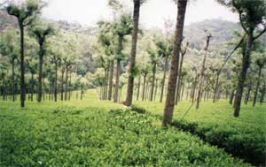 Ooty tea gardens in Tamil Nadu, India. Pic taken my me, Nichalp in late-May-1998.